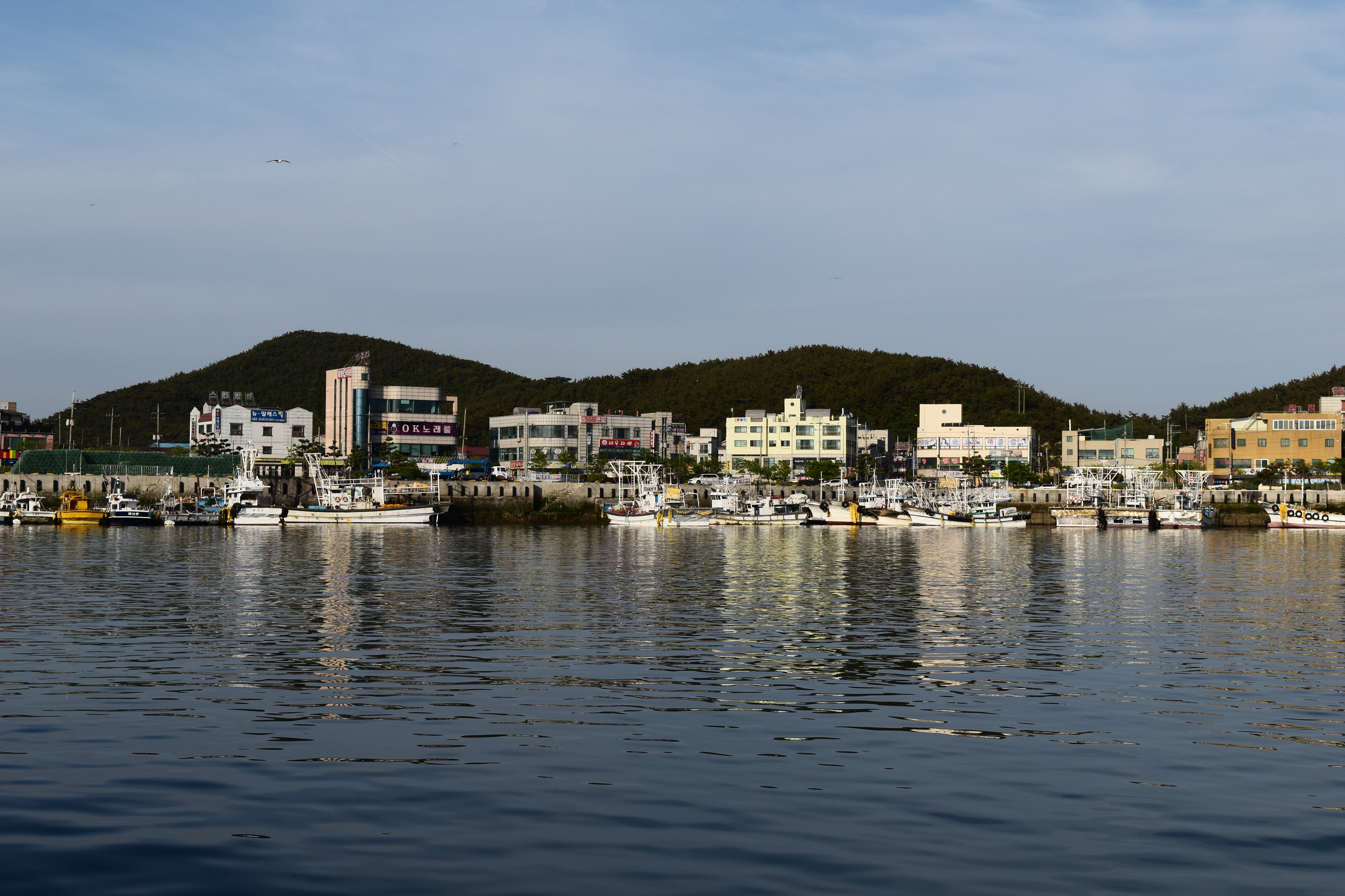 Port of Anheung, at Taean